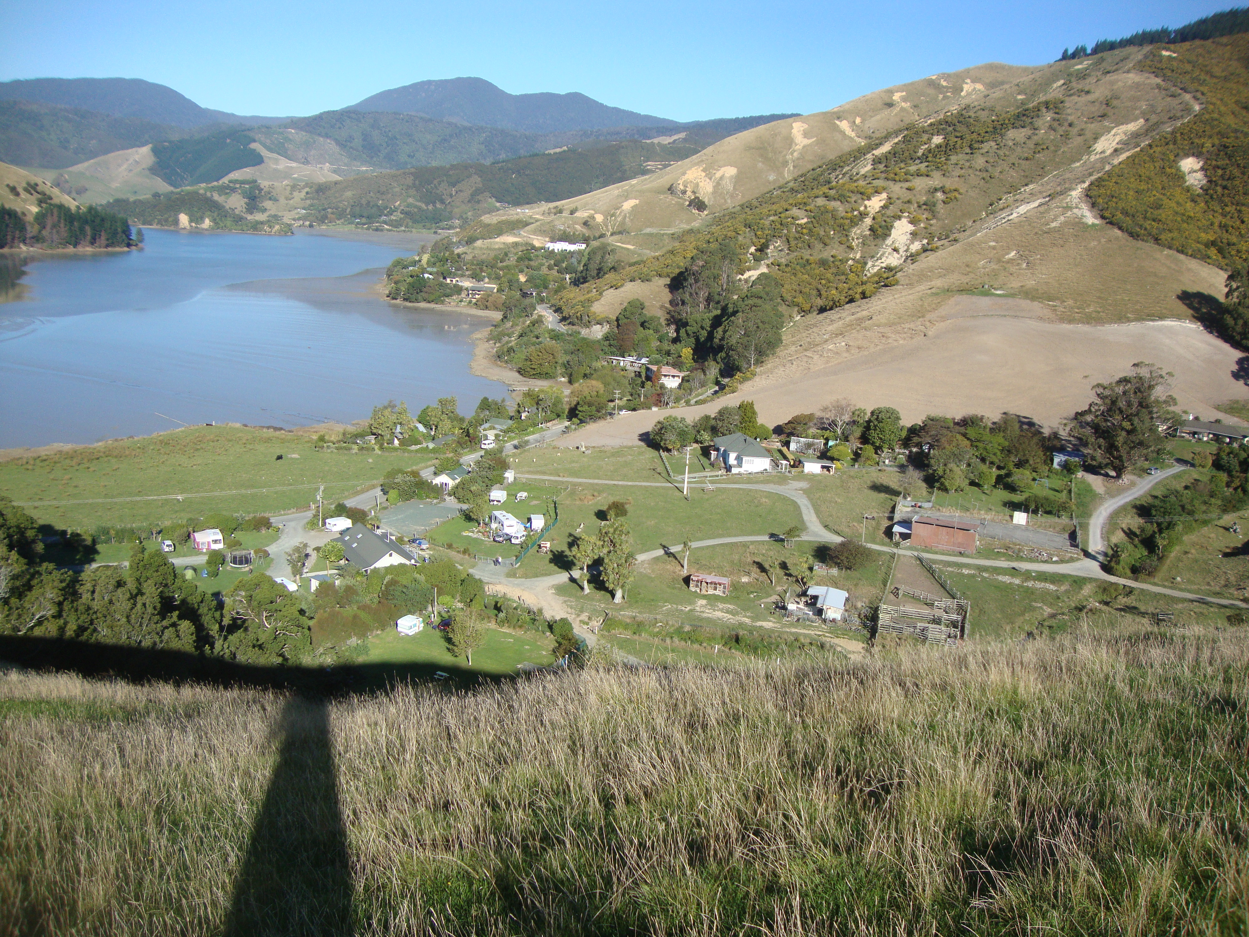 The settlement of Cable Bay in 2012